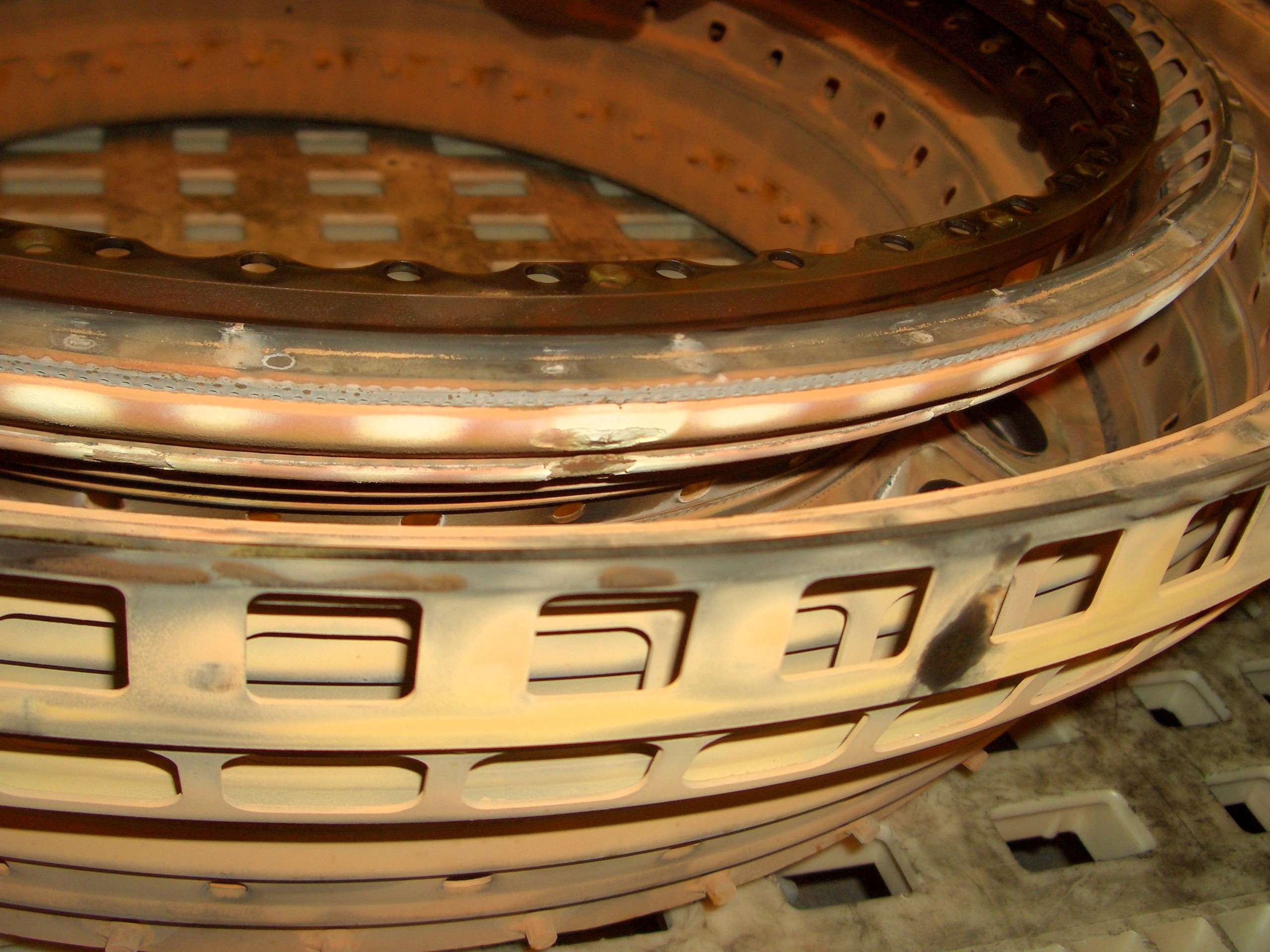 Detail of a CFM56-3 engine combustion chamber removed from engine for overhaul. In this picture are shown the inner liner, the outer liner and the dome (including one fuel nozzle swirl cup)